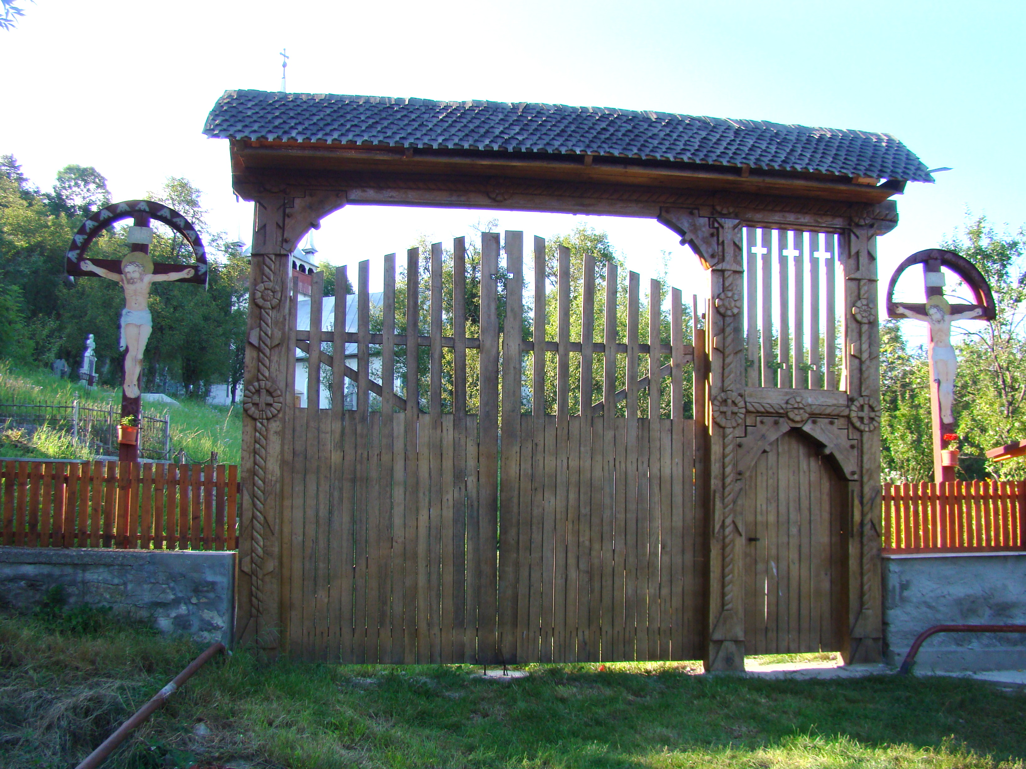 The church of the Descent of the Holy Spirit in Micești, Cluj county, Romania